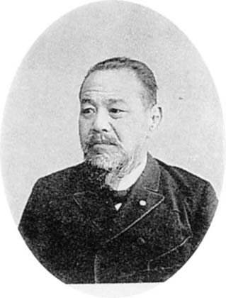 K. Taguchi, Professor of Anatomy.